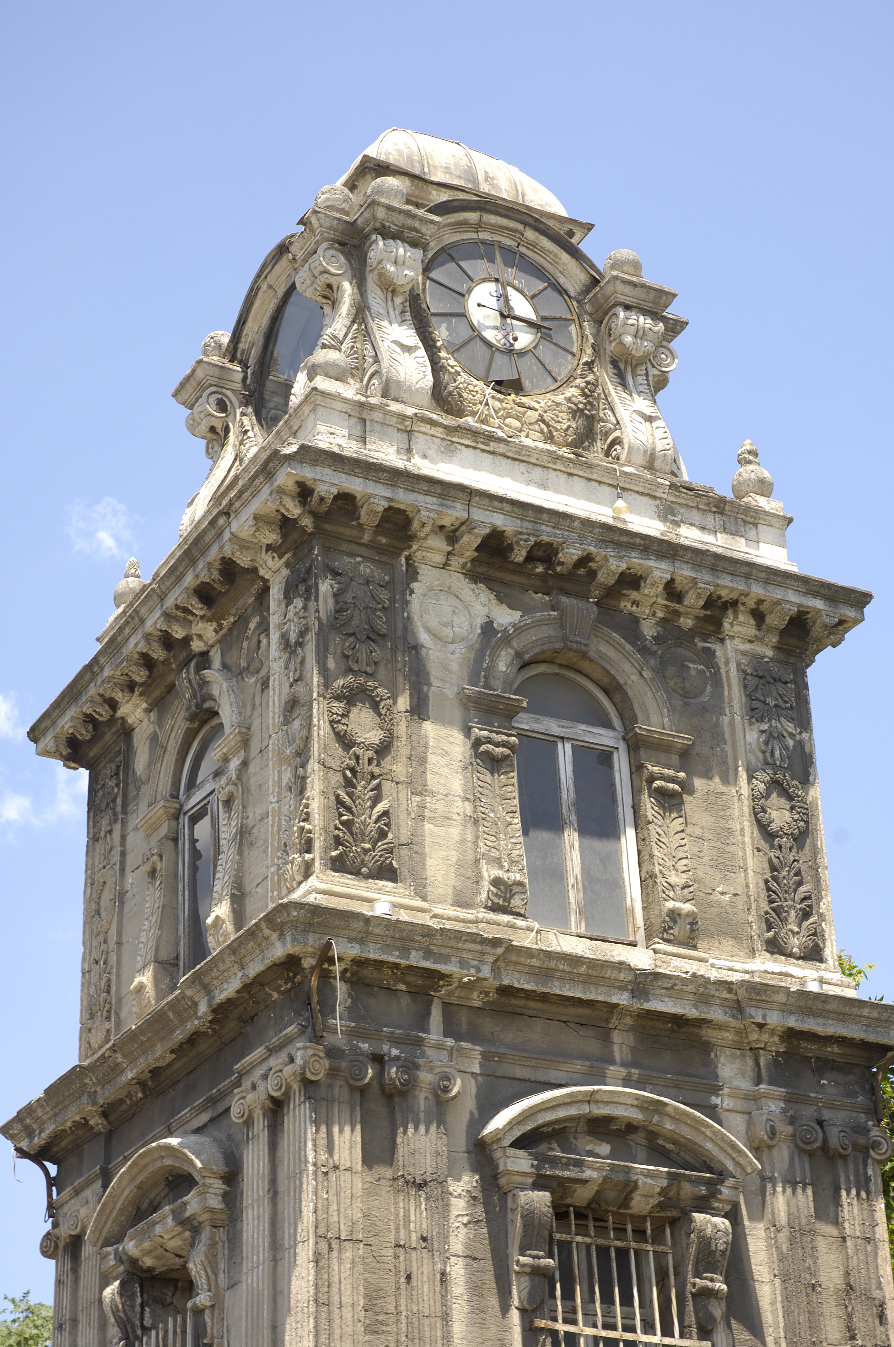 The Nusretiye mosque was built between 1822 and 1826 by Mahmut II, it's architect being Kirkor Balyan, the founder of a large family of Armenian architects.